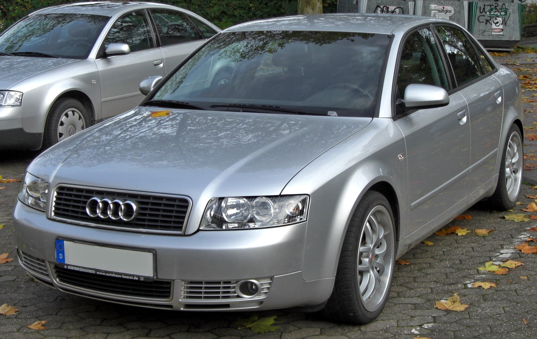 Description: Audi A4 B6 Source: Matthias Other Version(s)